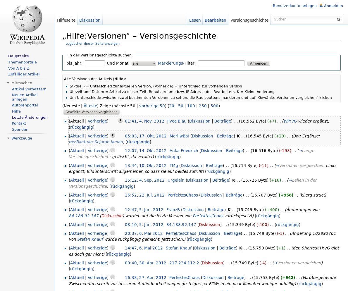 Version history, for german mediawiki manual